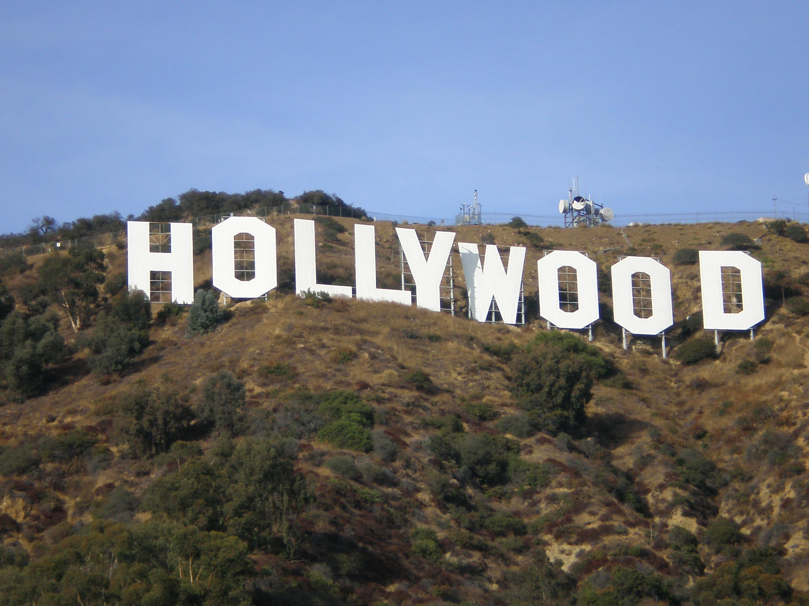 The Hollywood Sign as it appears from a trail in the Hollywood Hills in Hollywood, Los Angeles, California.